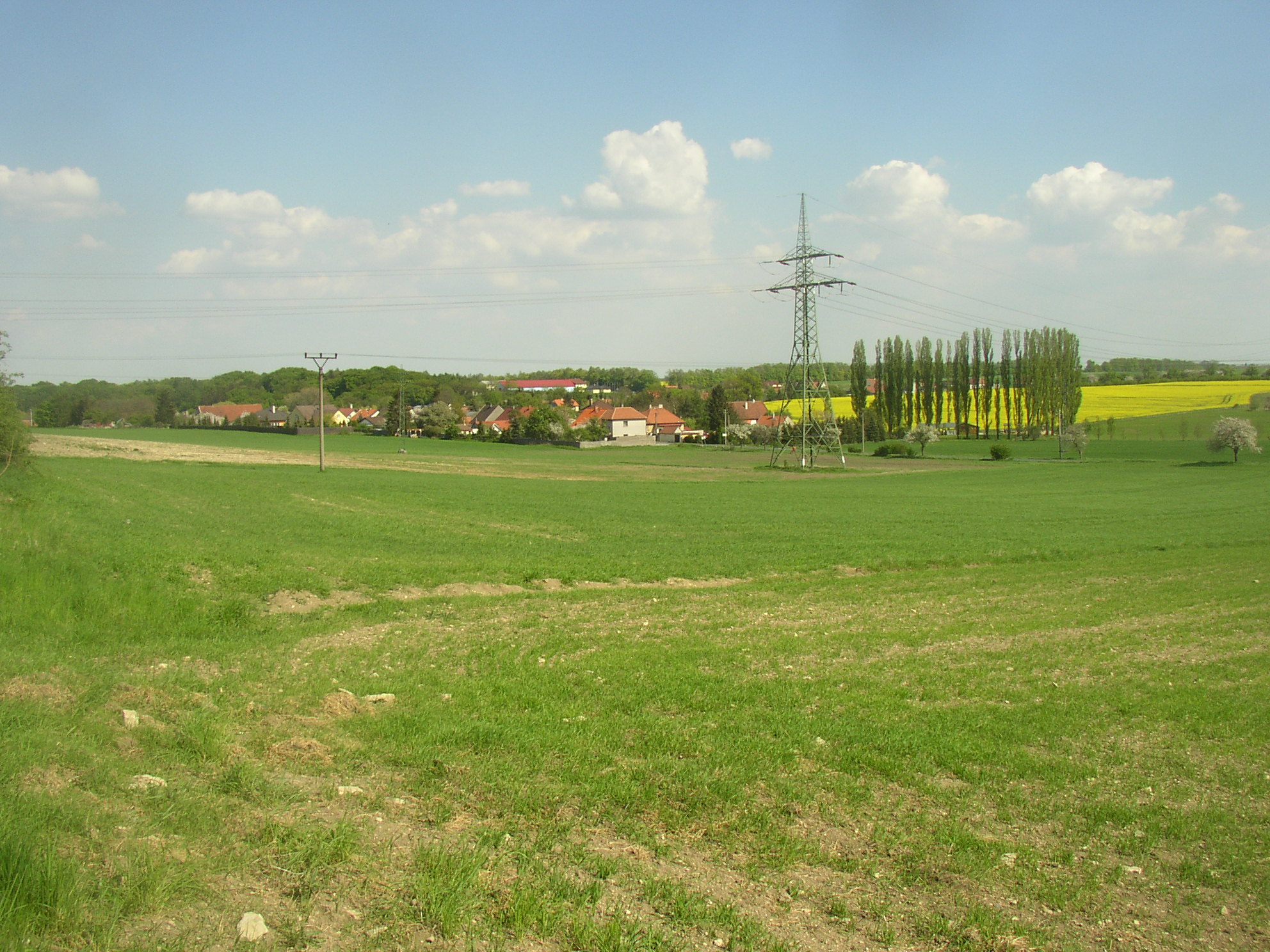 Village of Dolany, Kladno District, Czech Republic. A general view from the northwest, from fields between Dolany and Velké Přítočno.